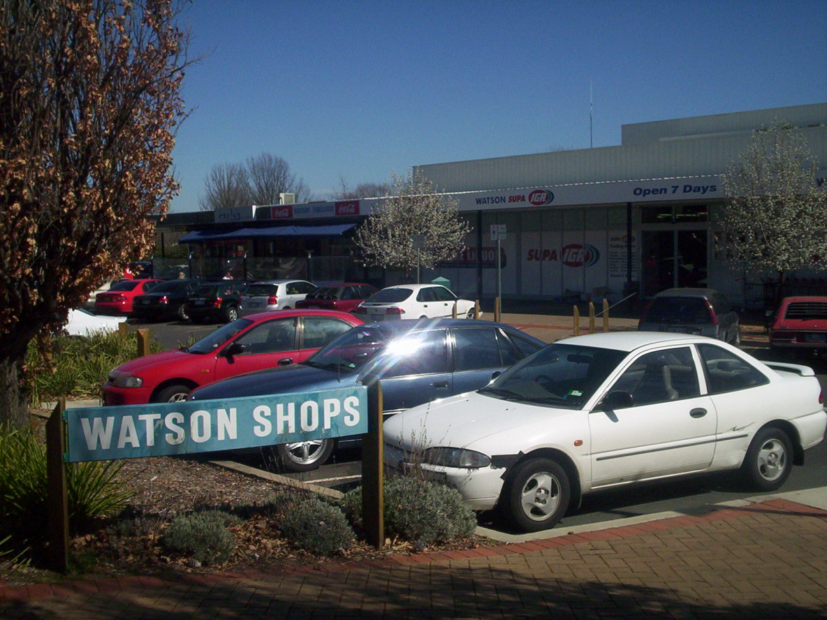 Watson shops, I took the photo